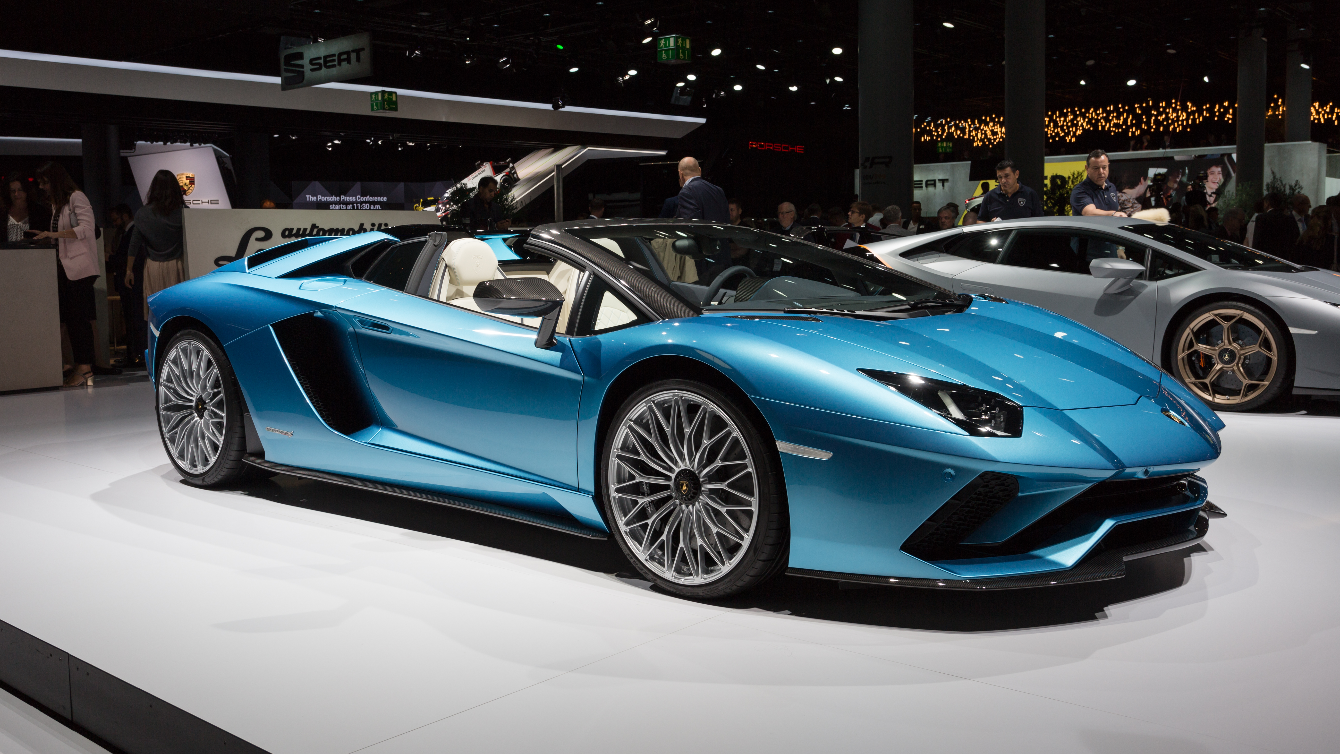 Lamborghini Aventador S Roadster, IAA 2017